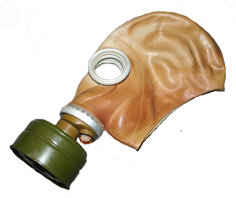 Old gasmask formerly used by the NVA in east germany, picture taken by User:Mutante on Jan, 15th,2006, released into the public domain